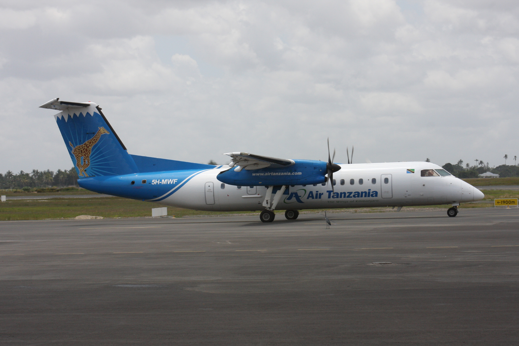 Air Tanzania DHC 8